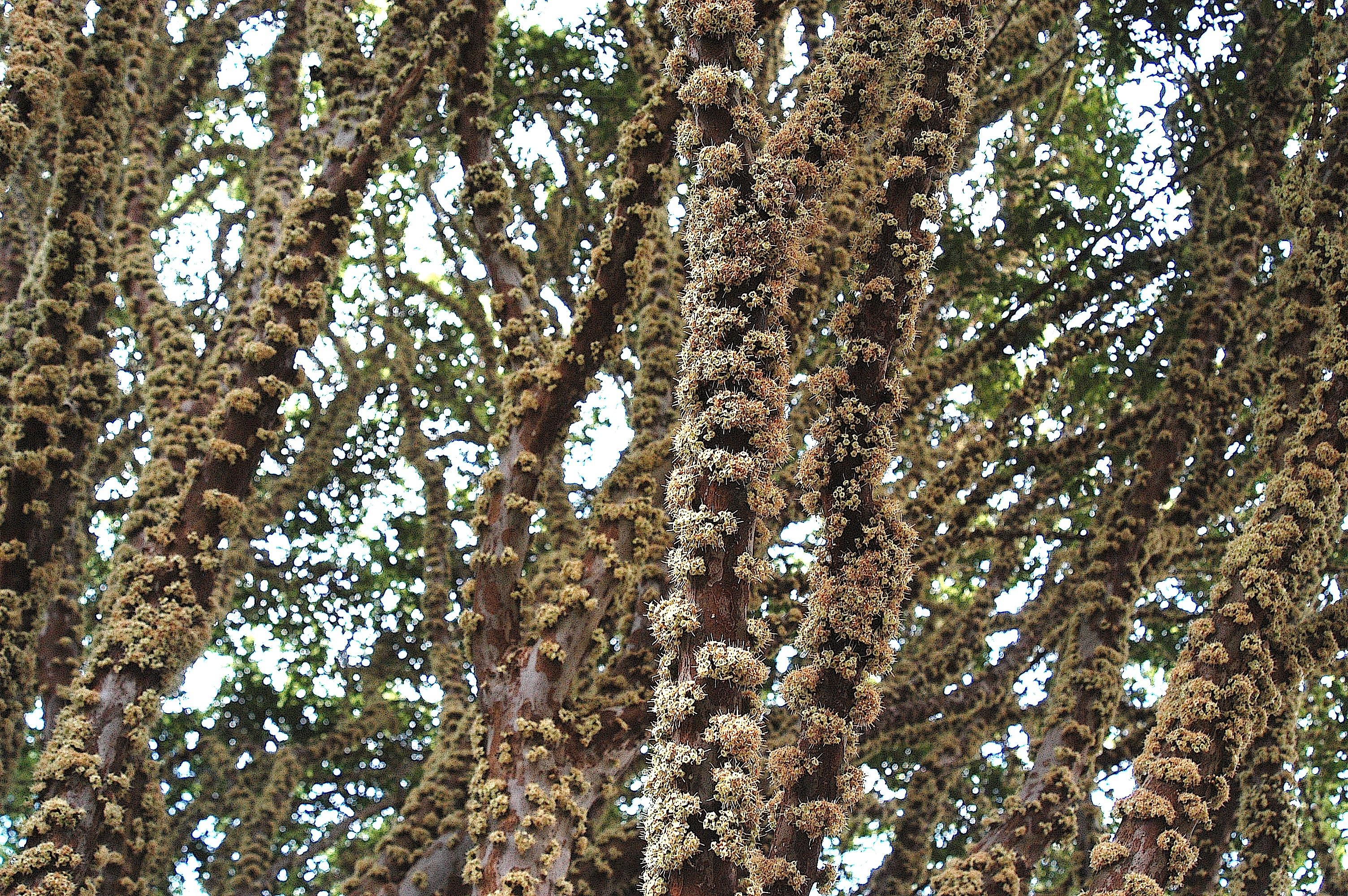 jabuticaba flower, a brasilian fruit